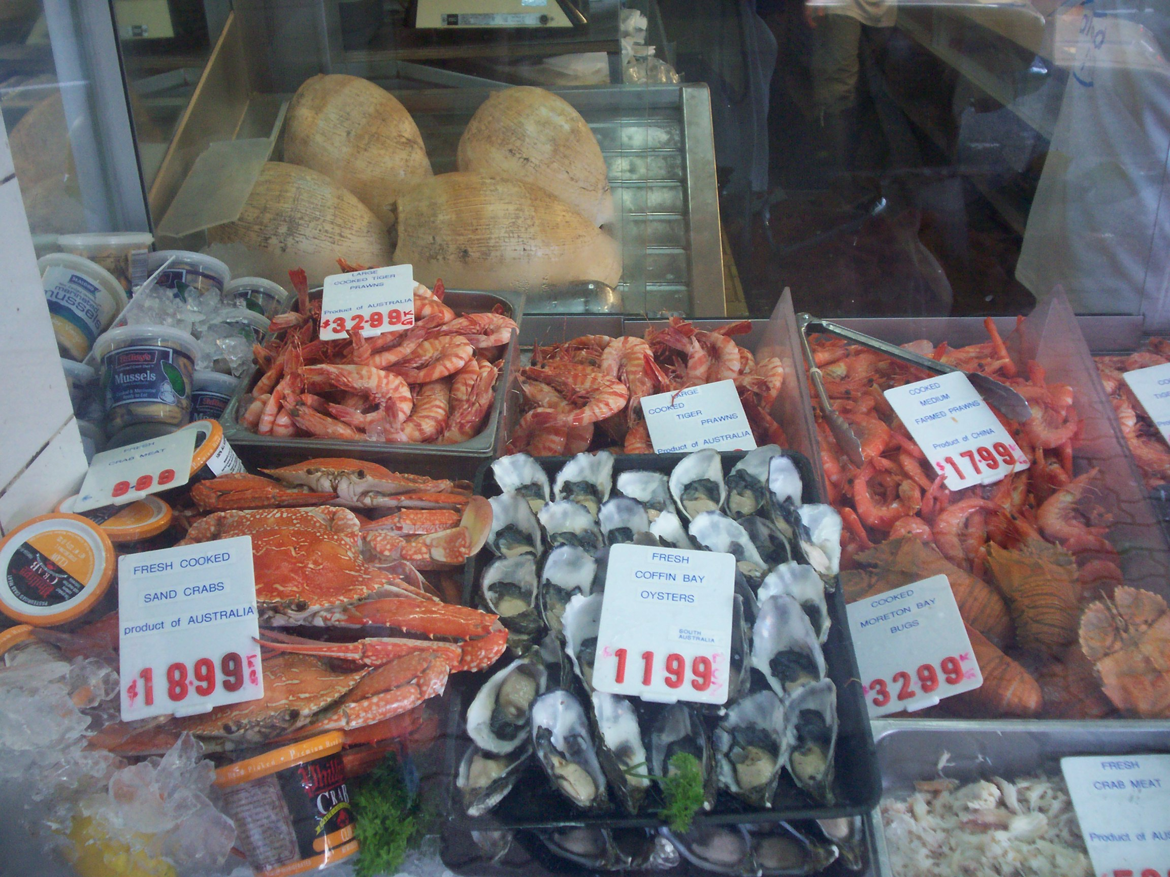 Boundary St fishmonger, near corner of Vulture St - 070106 West End, Brisbane, Queensland, Australia.